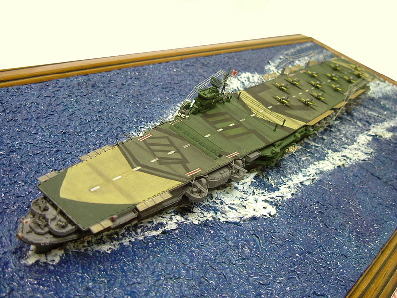 A Tamiya 1:700 scale WW2 Aircraft-Carrier IJN Zuikaku with extra aftermarket detailing assessories. Winner of small scale ship category in Australian Model Expo 2003